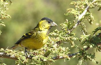 Black chined siskin male (Carduelis barbata). Place: Los Molles (Chile). Macho.